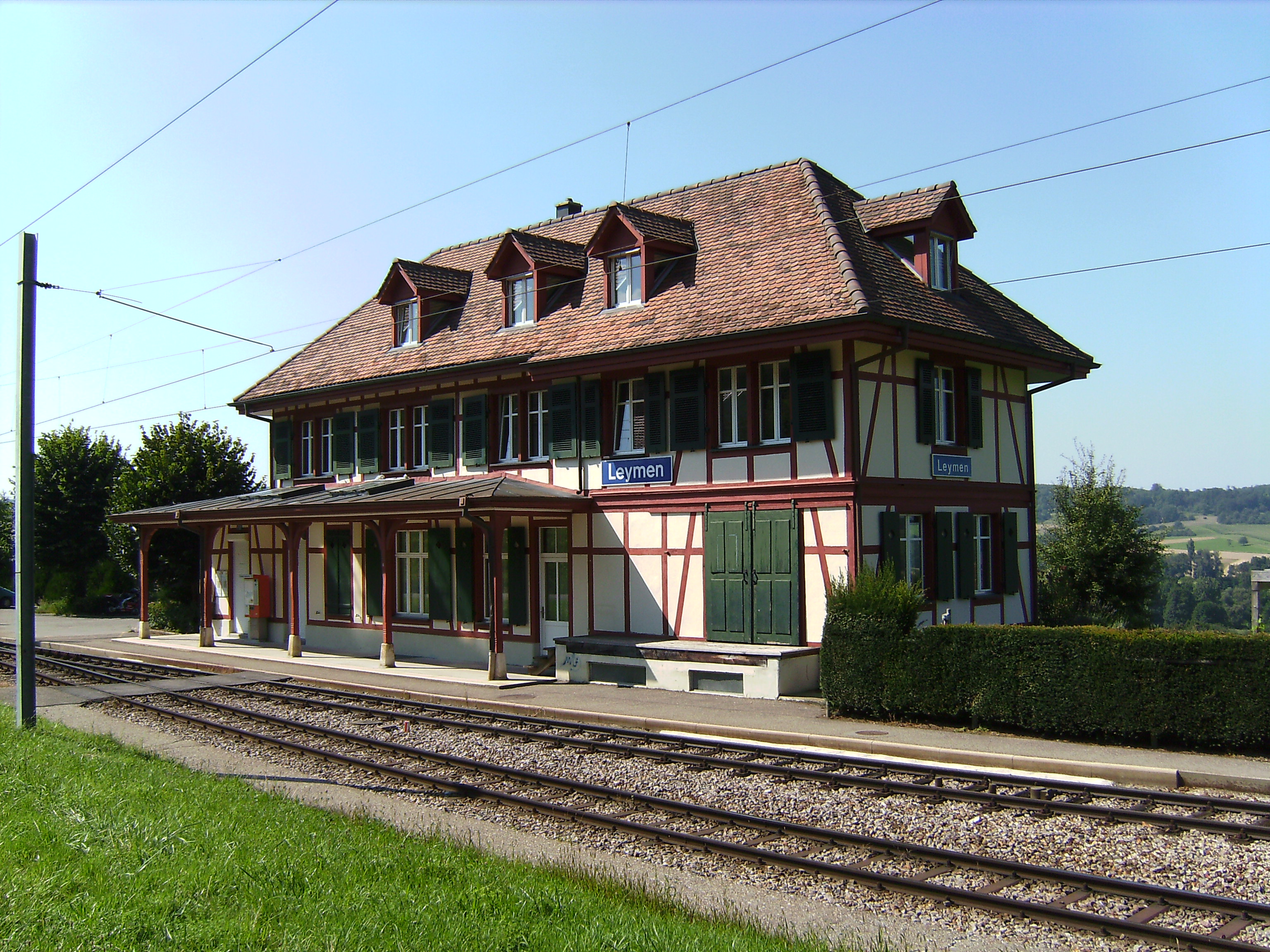 Leymen station building on the interurban tramway line 10, that goes from Basel to Rodersdorf, and passes through French territory. The Leymen tram stop is located on the French soil.